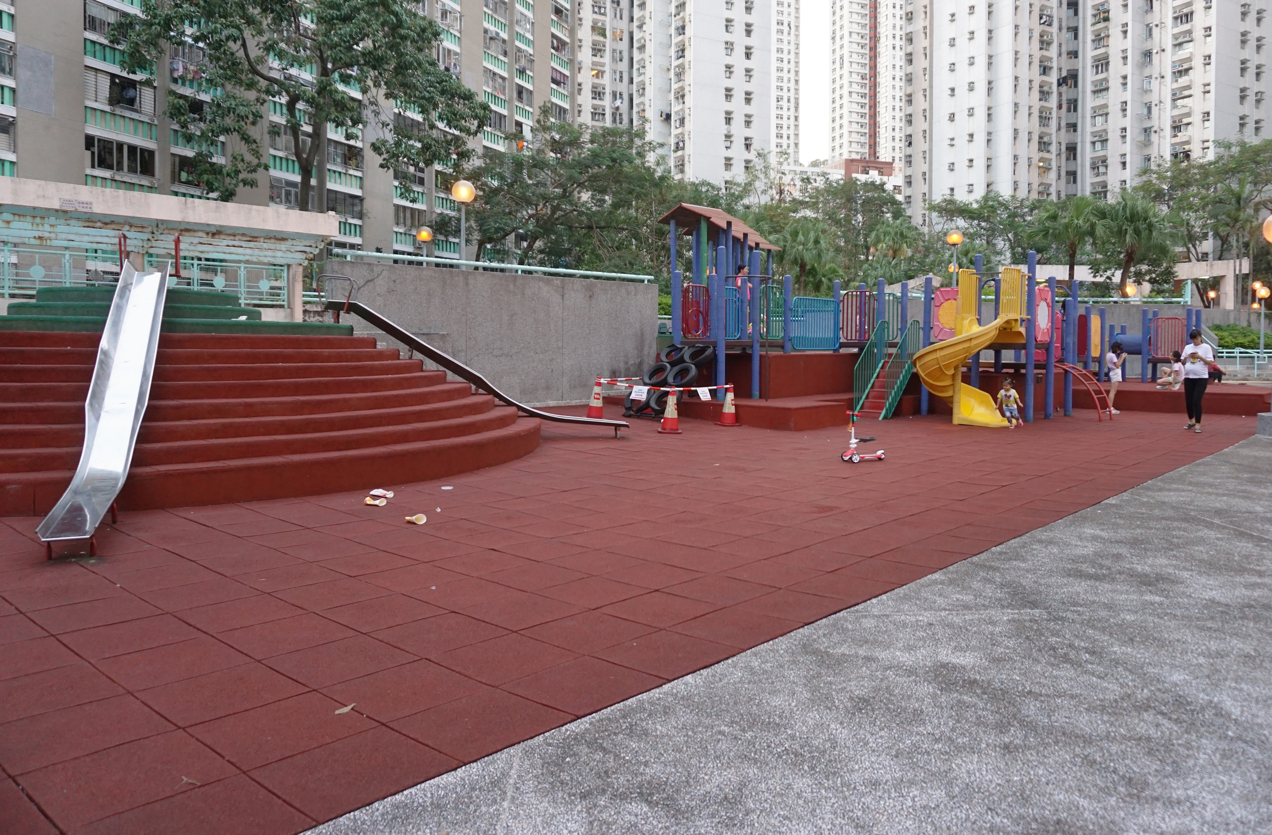 Po Pui Court in Kwun Tong, Hong Kong.